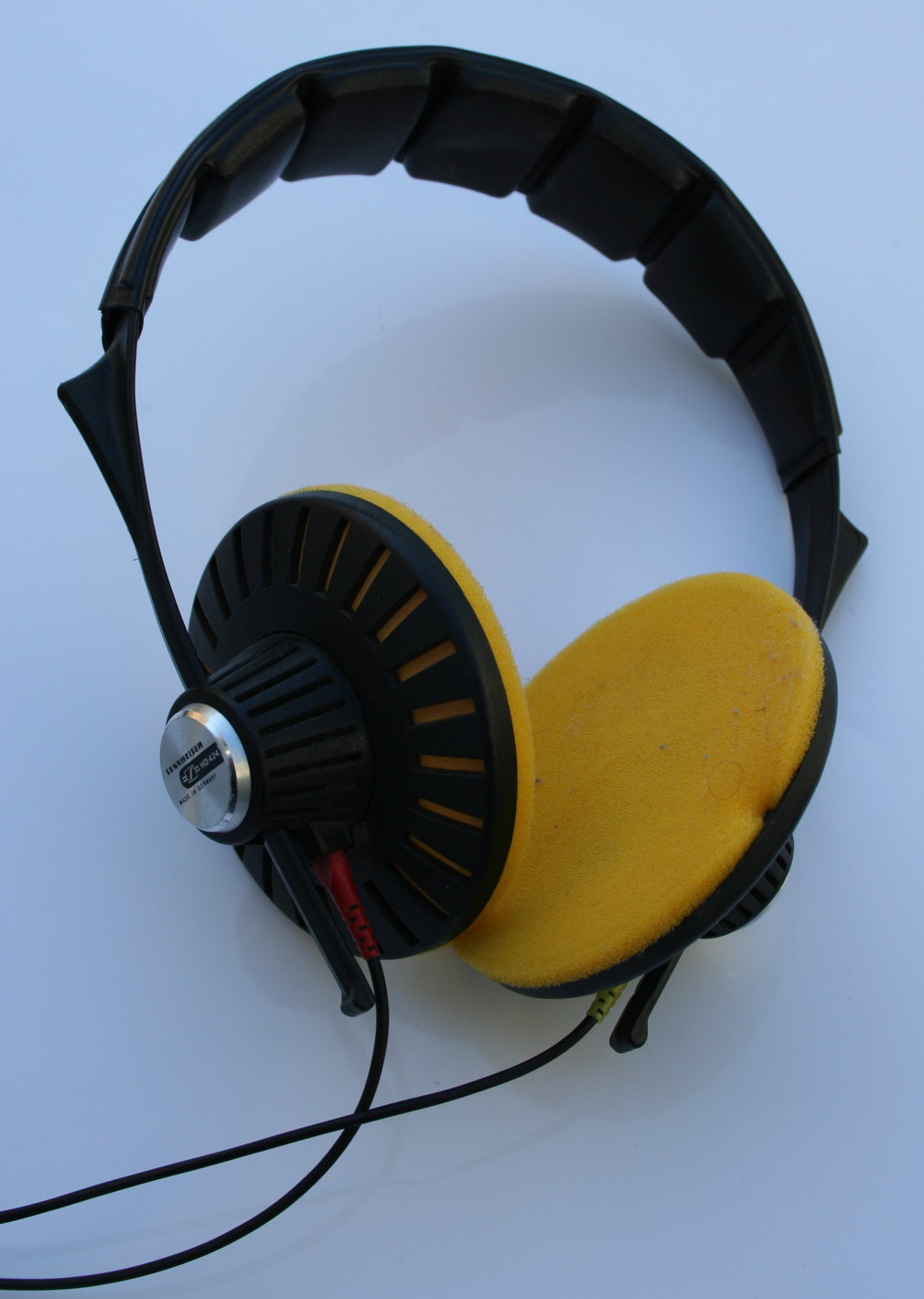 Headphones Sennheiser HD 424